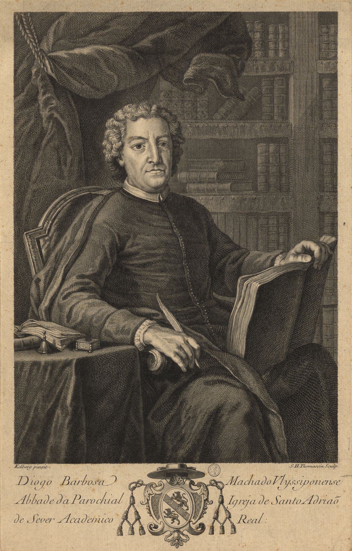 Diogo Barbosa Machado (1682-1772), Catholic priest, writer, and bibliograph from Portugal.